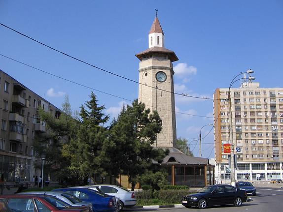 Giurgiu, Rumania.